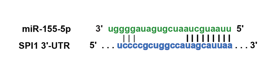 Complementarity between miR-155-5p and SPI1